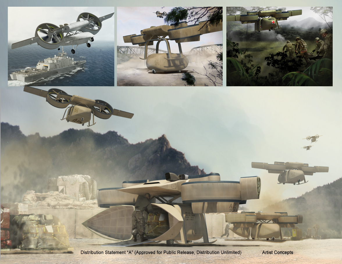 ARES is designed to operate as an unmanned platform capable of transporting a variety of payloads.